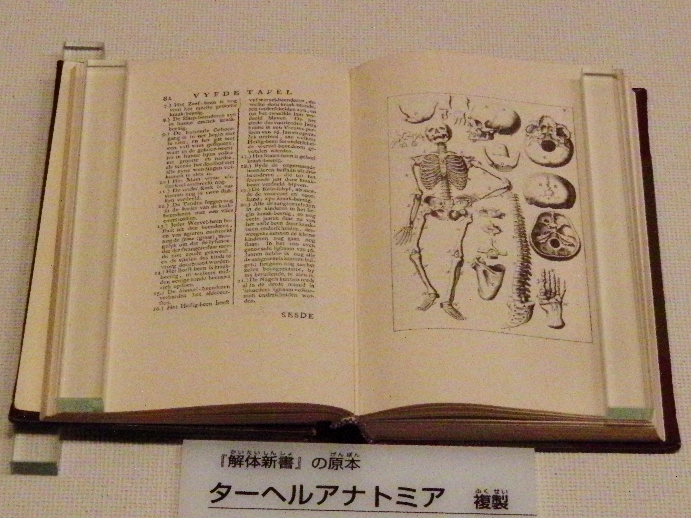 "Ontleedkundige Tafelen" (replica). Exhibit in the National Museum of Nature and Science, Tokyo, Japan.